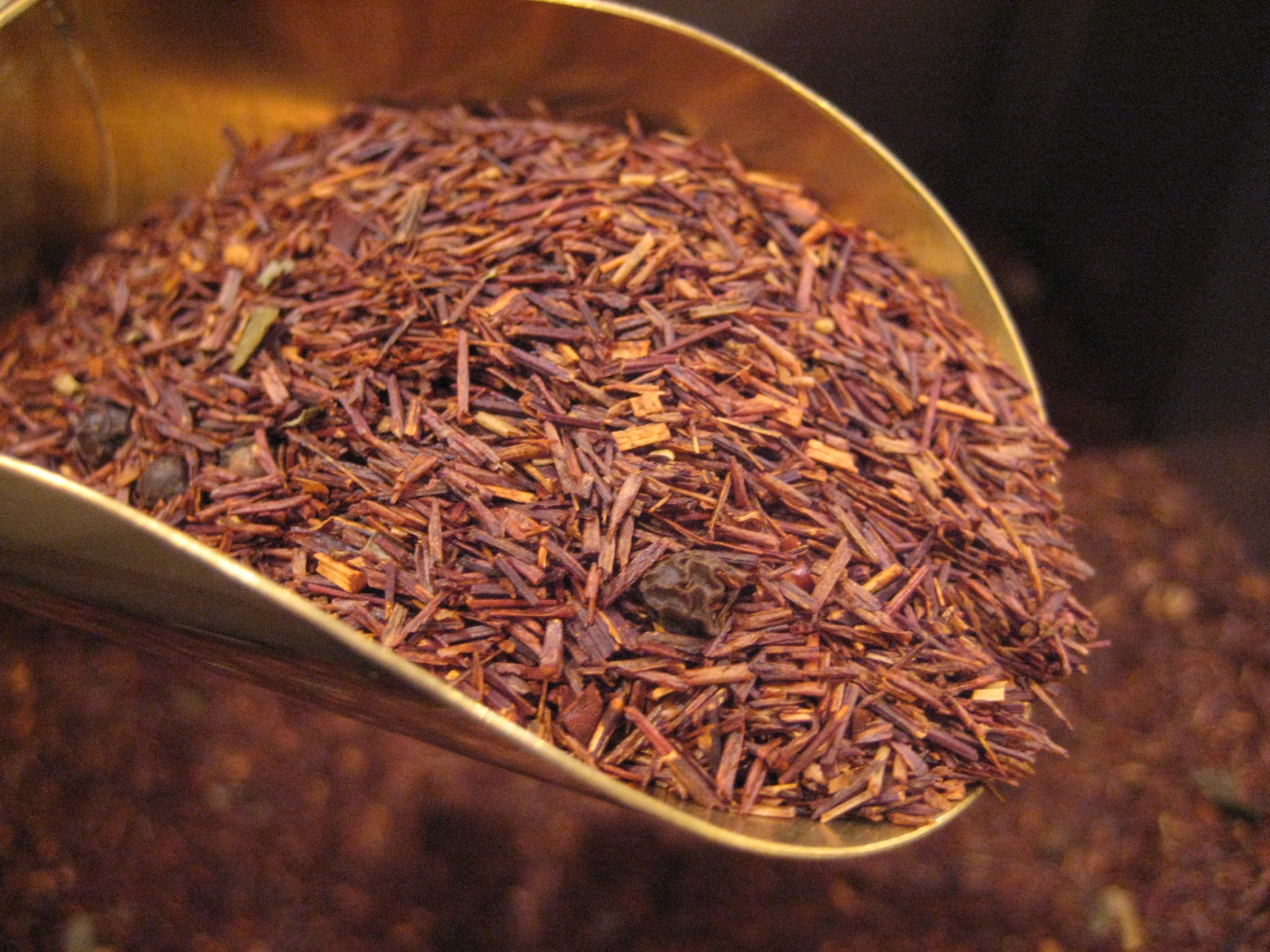 Rooibush tea, peppercorns, freeze-dried strawberries, strawberry leaves.